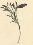 Stainton’s Natural History of the Tineina (1855–1873): Coleophora caelebipennella mined leaf of Artemisia campestris with case attached